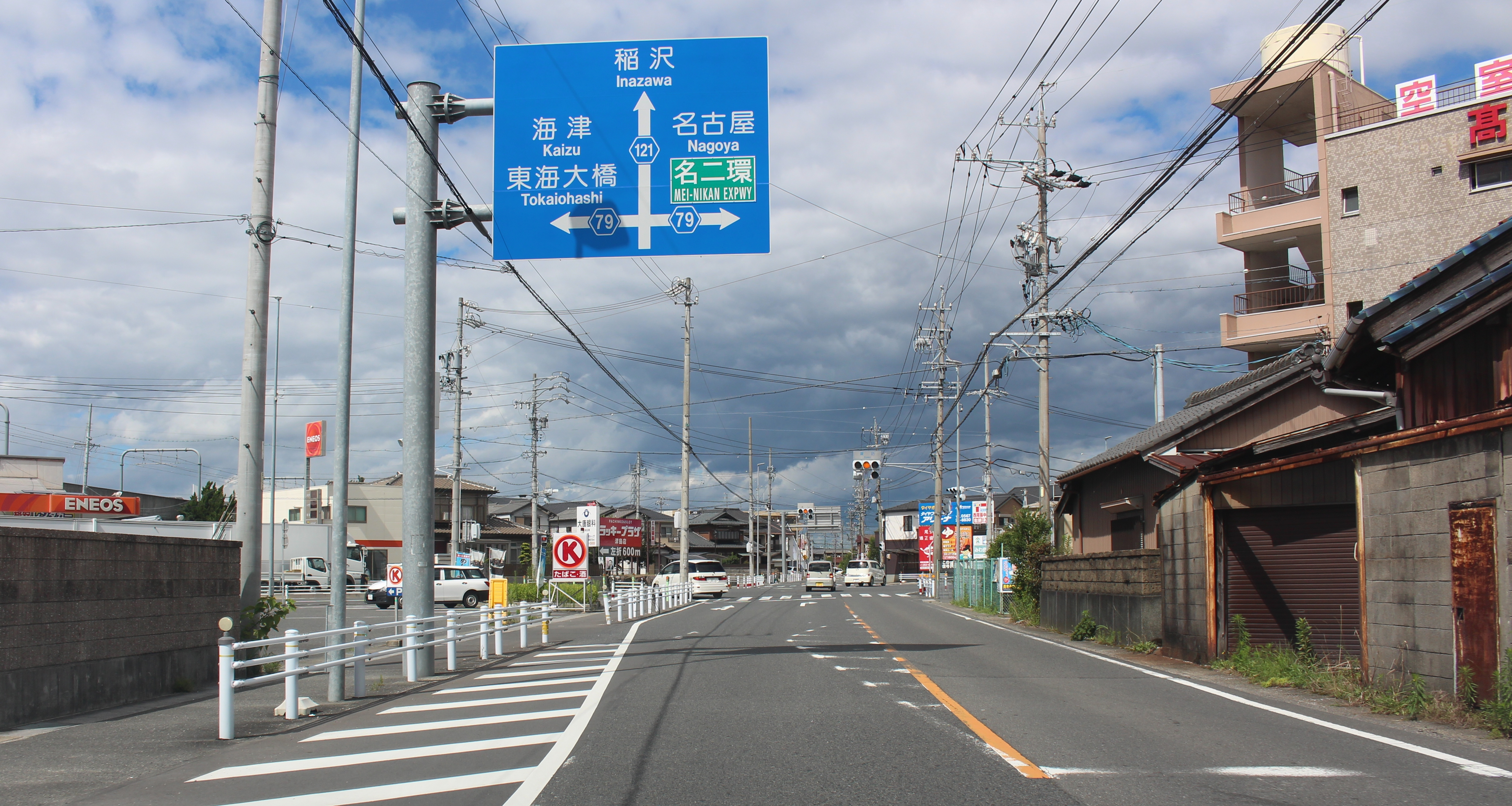 Aichi Prefectural Road Route 121 and Aichi Prefectural Road Route 79 in Suwa-chō, Aisai, Aisai, Aichi Prefecture, Japan.